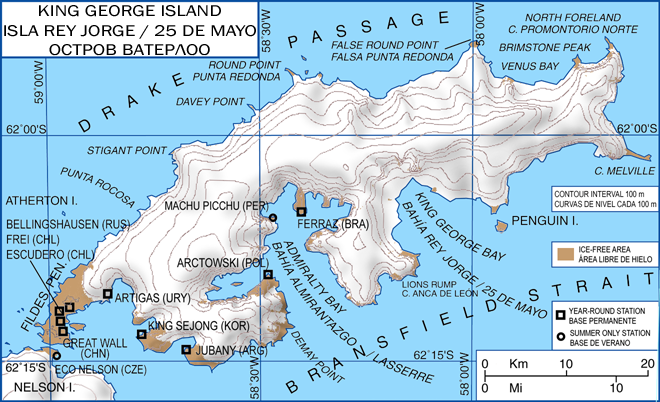 King George Island map. Detailed. Relief. Research Stations.